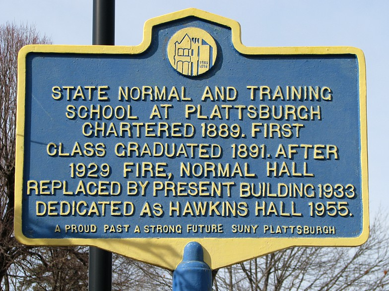 Historic Plaque in front of Hawkins Hall, SUNY Plattsburgh, New York